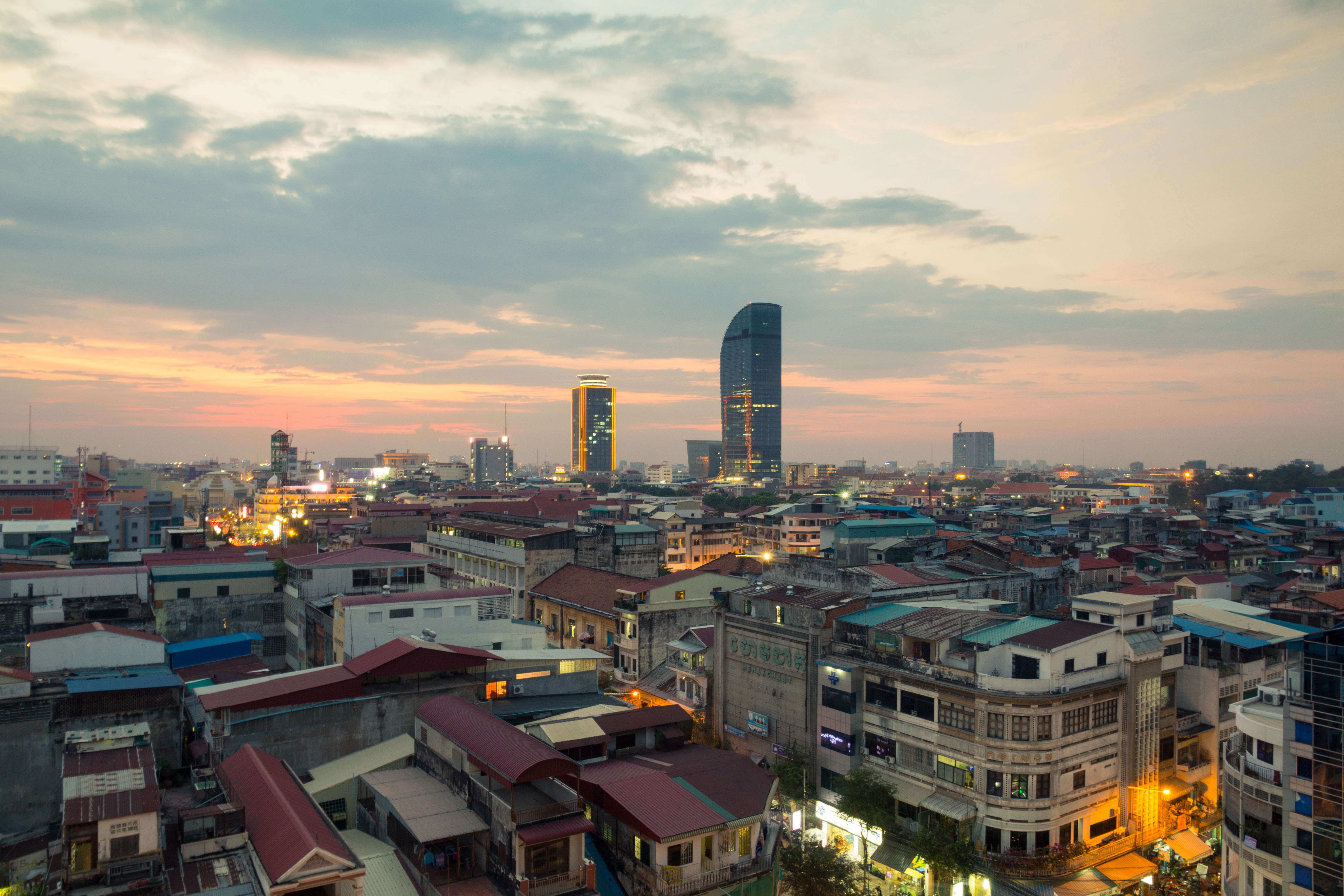 Phnom Penh sunset